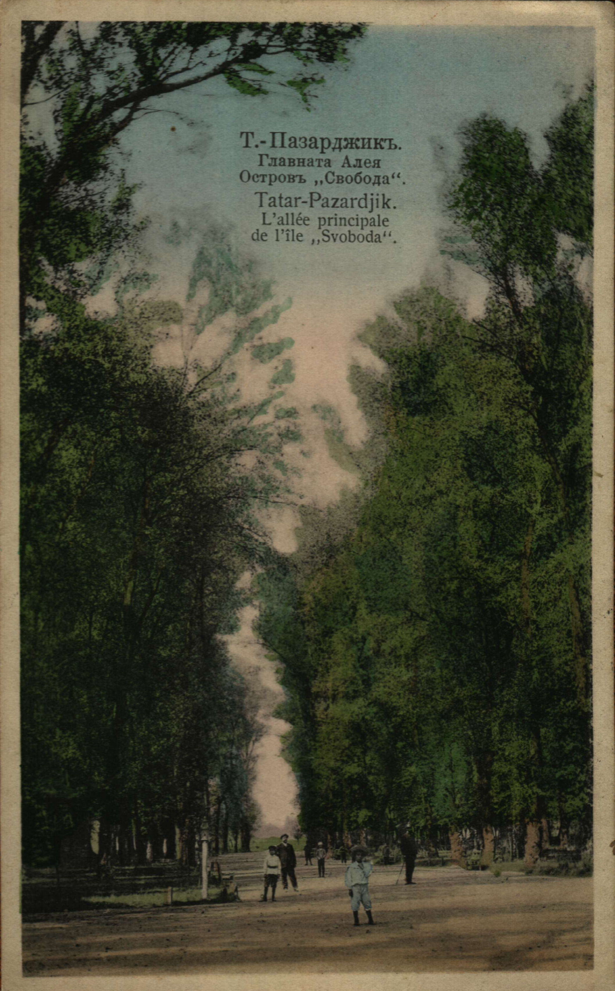 Park Svoboda, Pazardzhik